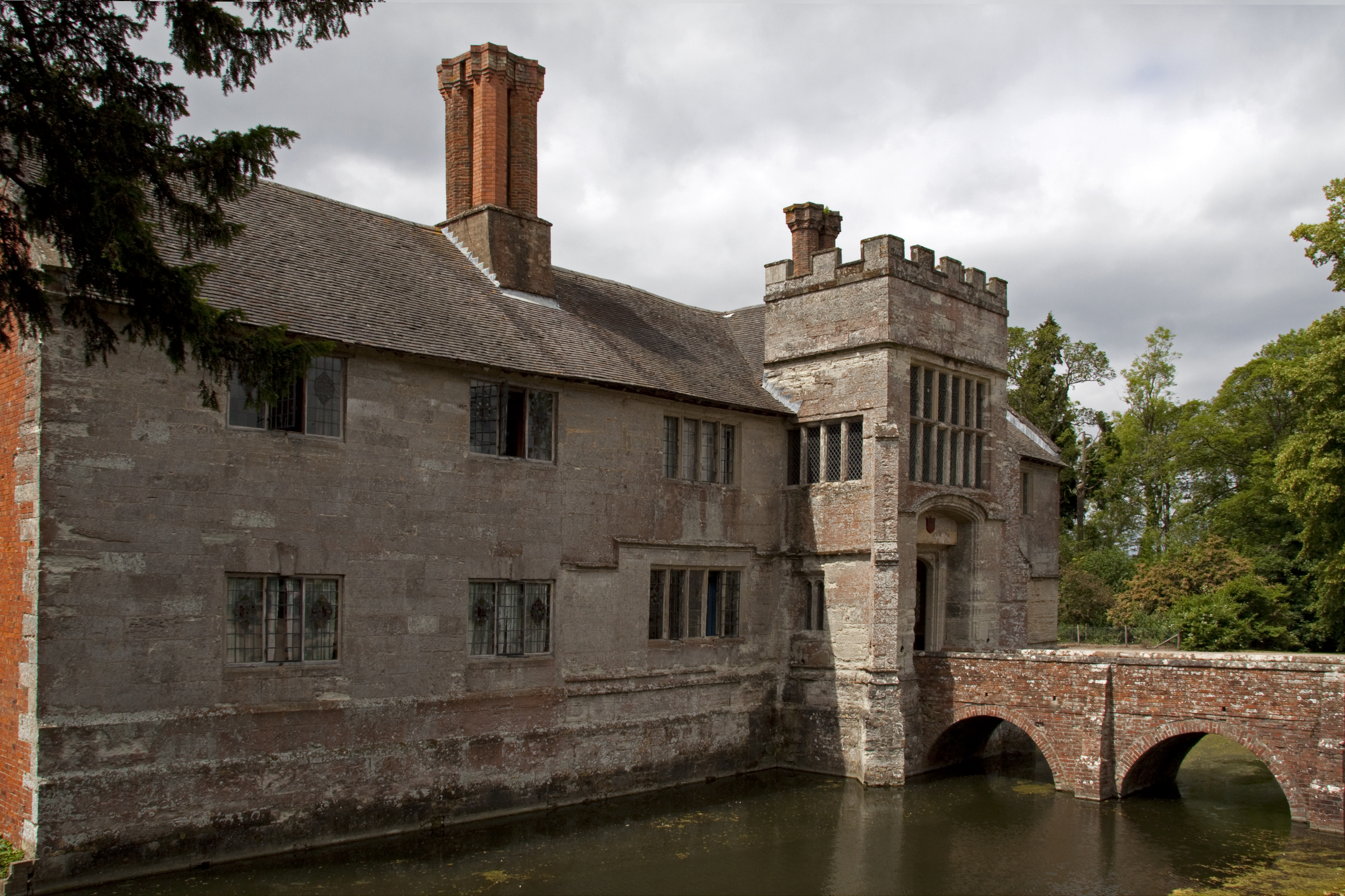 Baddesley Clinton 3a